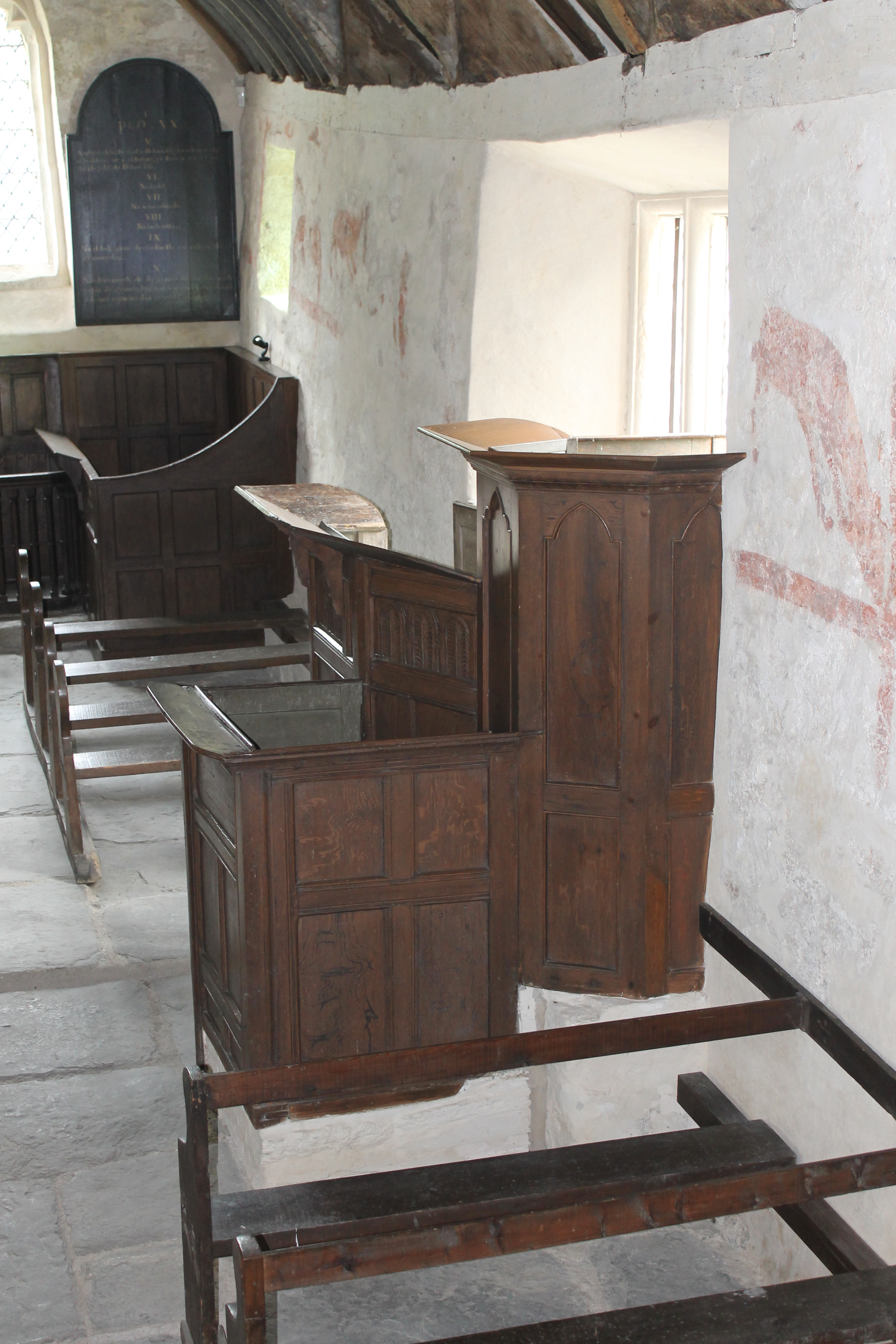 The pulpit in All Saints' Church, Llangar.